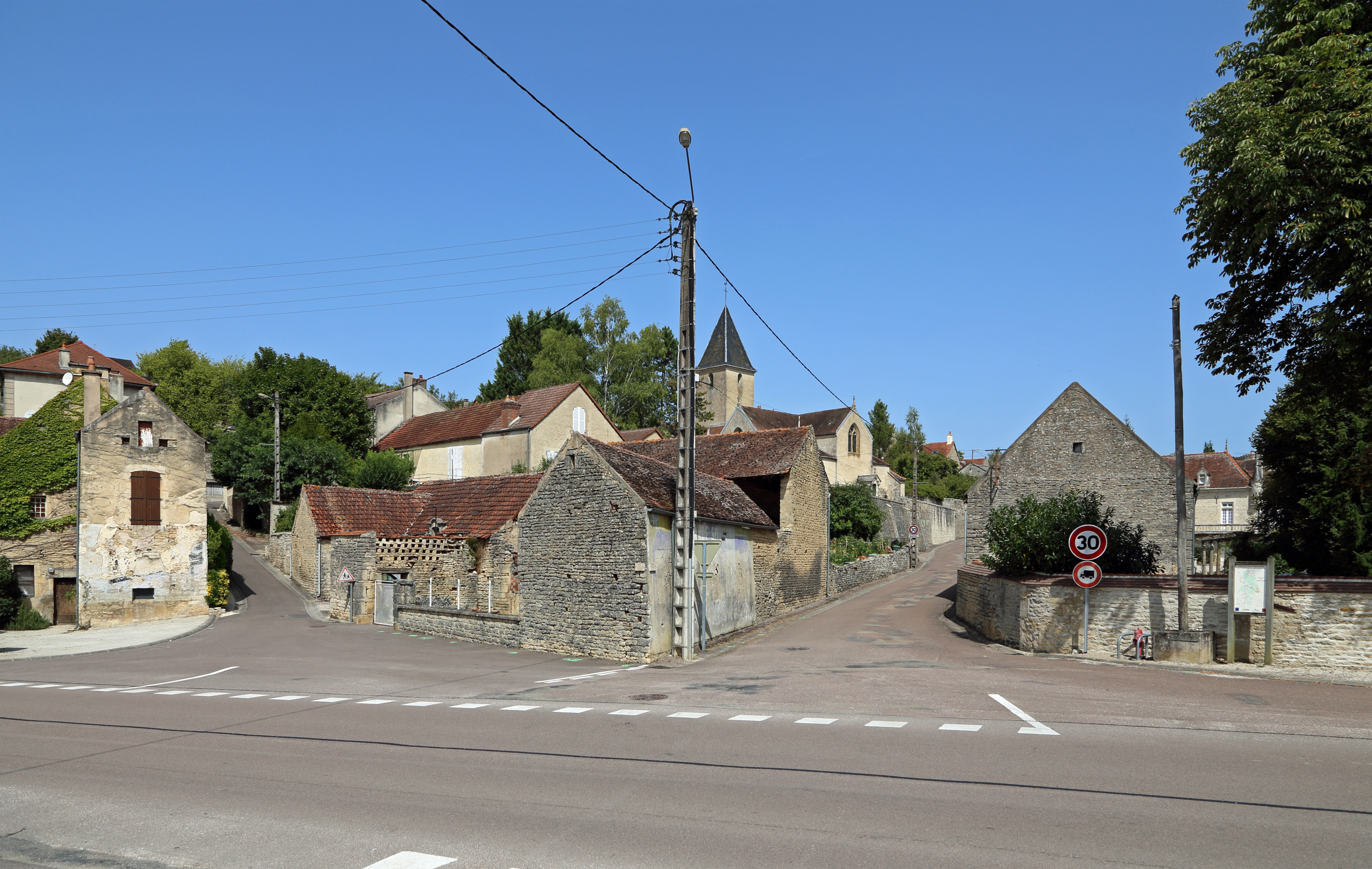 Buffon (Côte-d'Or department, France): the village